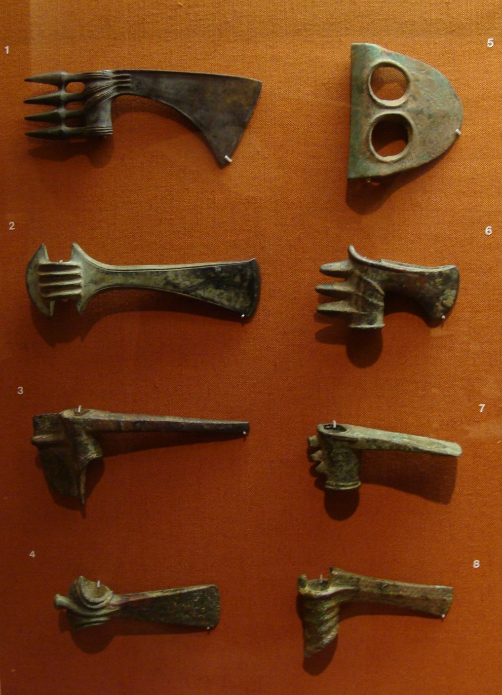 San Antonio Museum of Art. Texas. Axe and Adze heads from the Near Eastern collection. 1: Lurestan, Iran. 8-10th century BCE. 3, 6, 7: Lurestan, Iran. 9-8th century BCE. 2, 4, 5, 8: Syria. 2000 BCE.